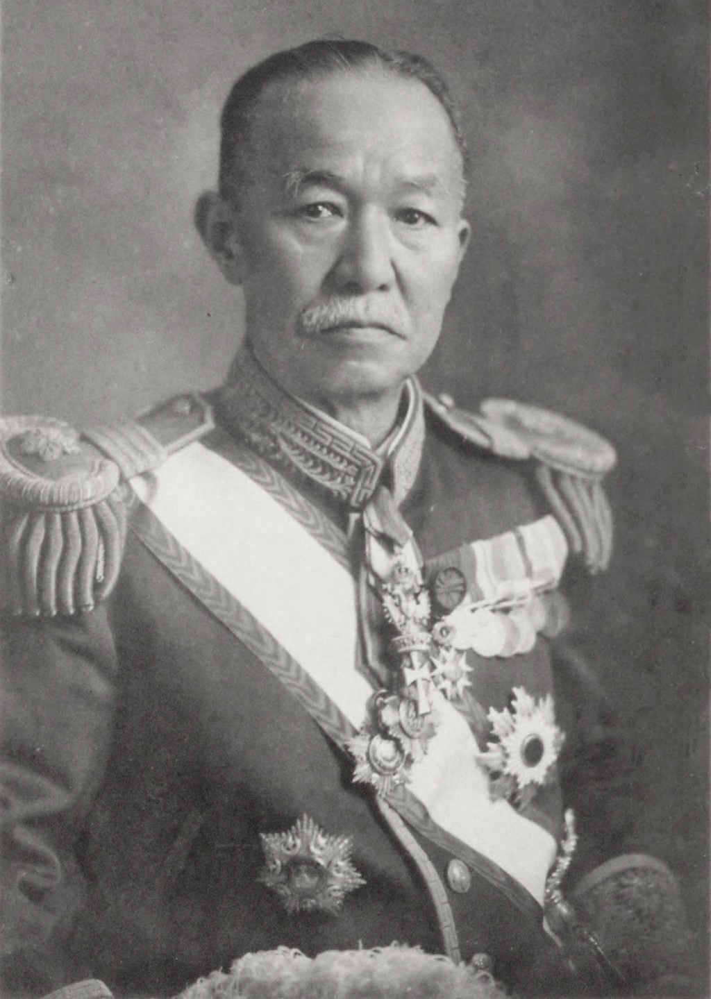 Portrait of Den Kenjiro (田健治郎, 1855 – 1930)